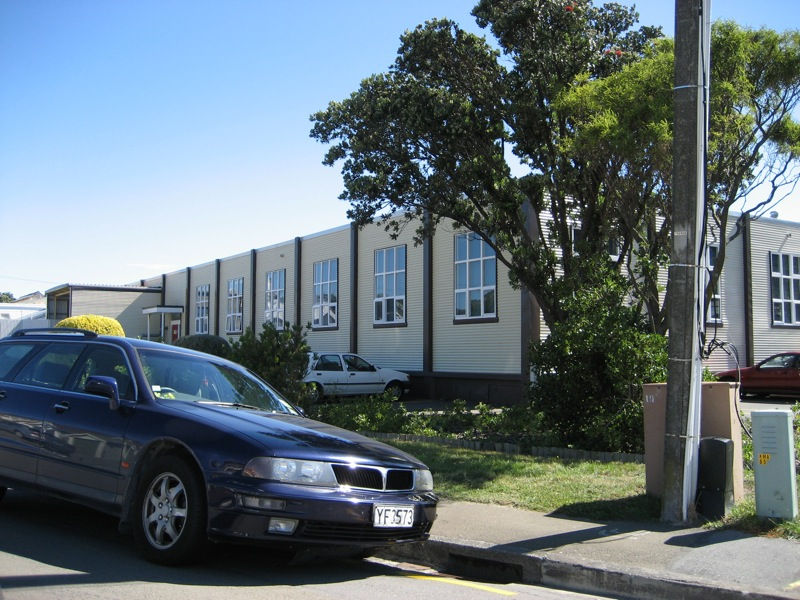 One of the buildings that make up the Weta workshop in Wellington. There are no signs logos or other markings to identify it as such.